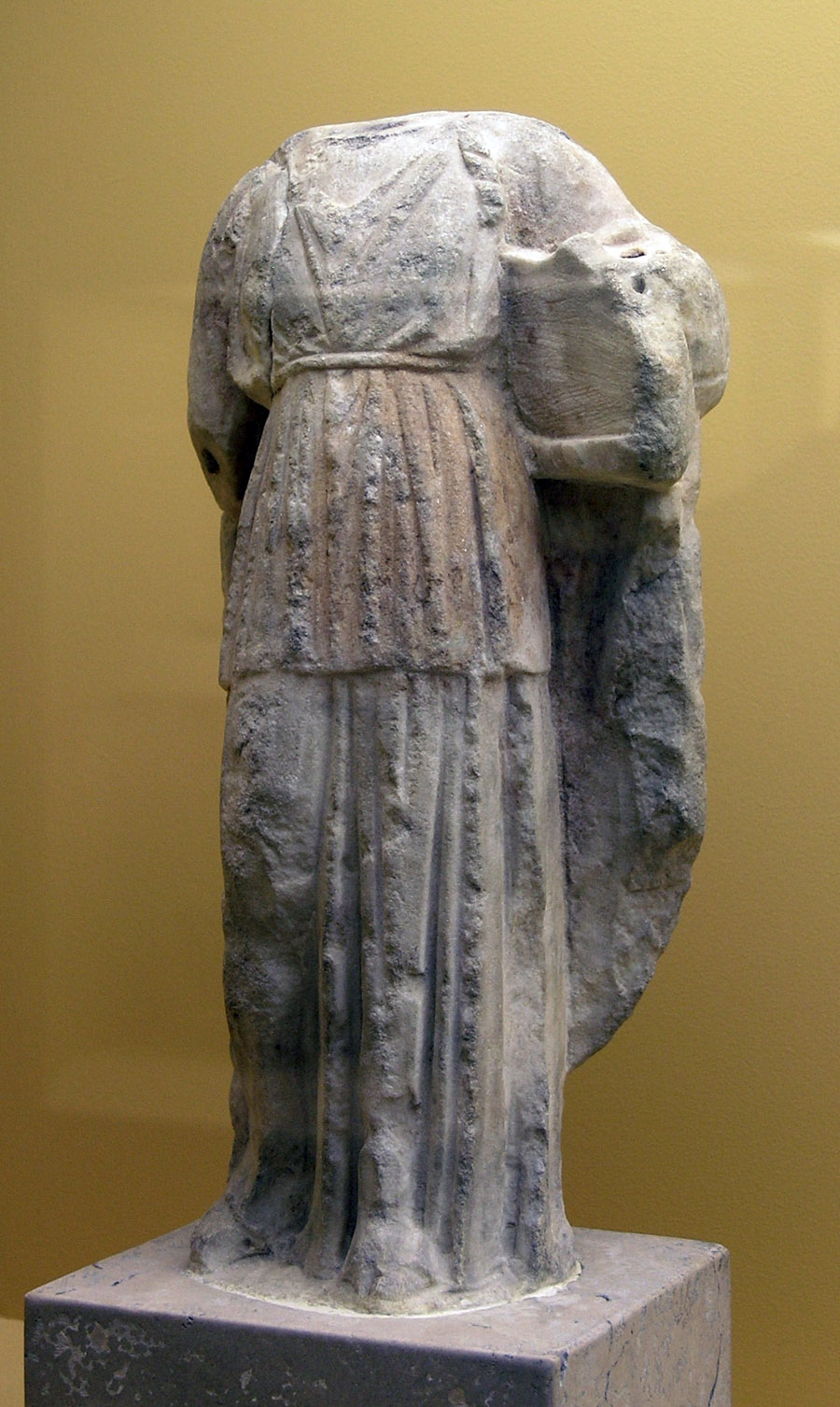 Apollo Patroos. Marble statuette, copy after a Greek original by Euphranor. Ancient Agora Museum in Athens.